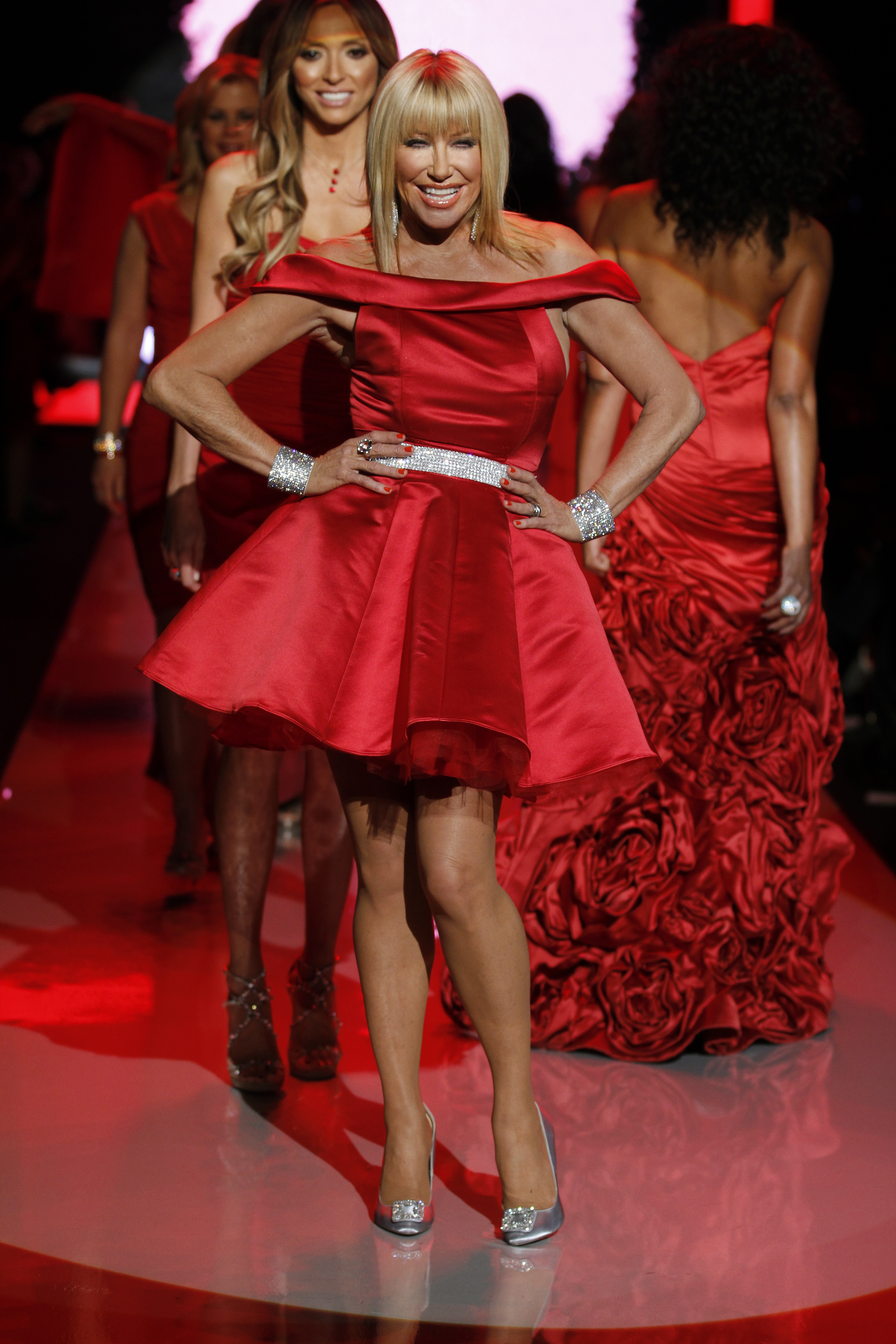 Making its debut at the Lincoln Center venue, The Heart Truth’s Red Dress Collection Fashion Show unveiled its 2011 collection of red dresses designed to celebrate the Red Dress as the national symbol for women and heart disease awareness. More than 20 of today’s top celebrities walked the runway in red dresses by America’s top designers to inspire women to take action to protect their heart health. The Heart Truth® is a national awareness campaign for women about heart disease sponsored by the National Heart, Lung, and Blood Institute (NHLBI), part of the National Institutes of Health, U.S. Department of Health and Human Services (HHS). ® The Heart Truth, its logo and The Red Dress are registered trademarks of HHS. Participation by Mercedes-Benz Fashion Week, Diet Coke, Swarovski, AOL, and Bobbi Brown does not imply endorsement by HHS.